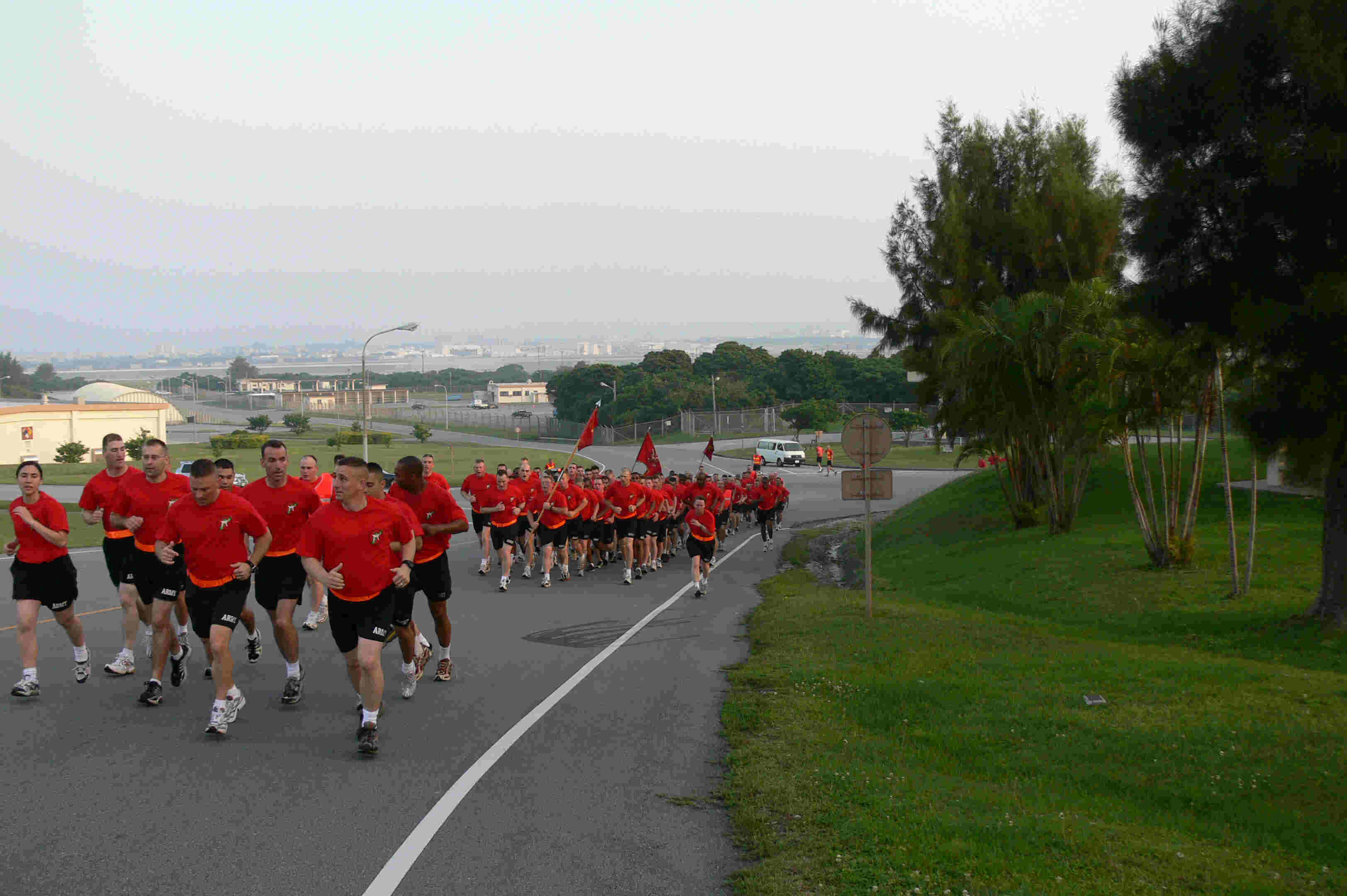 1-1 ADA soldiers (U.S. ARMY Japan) during a unit run